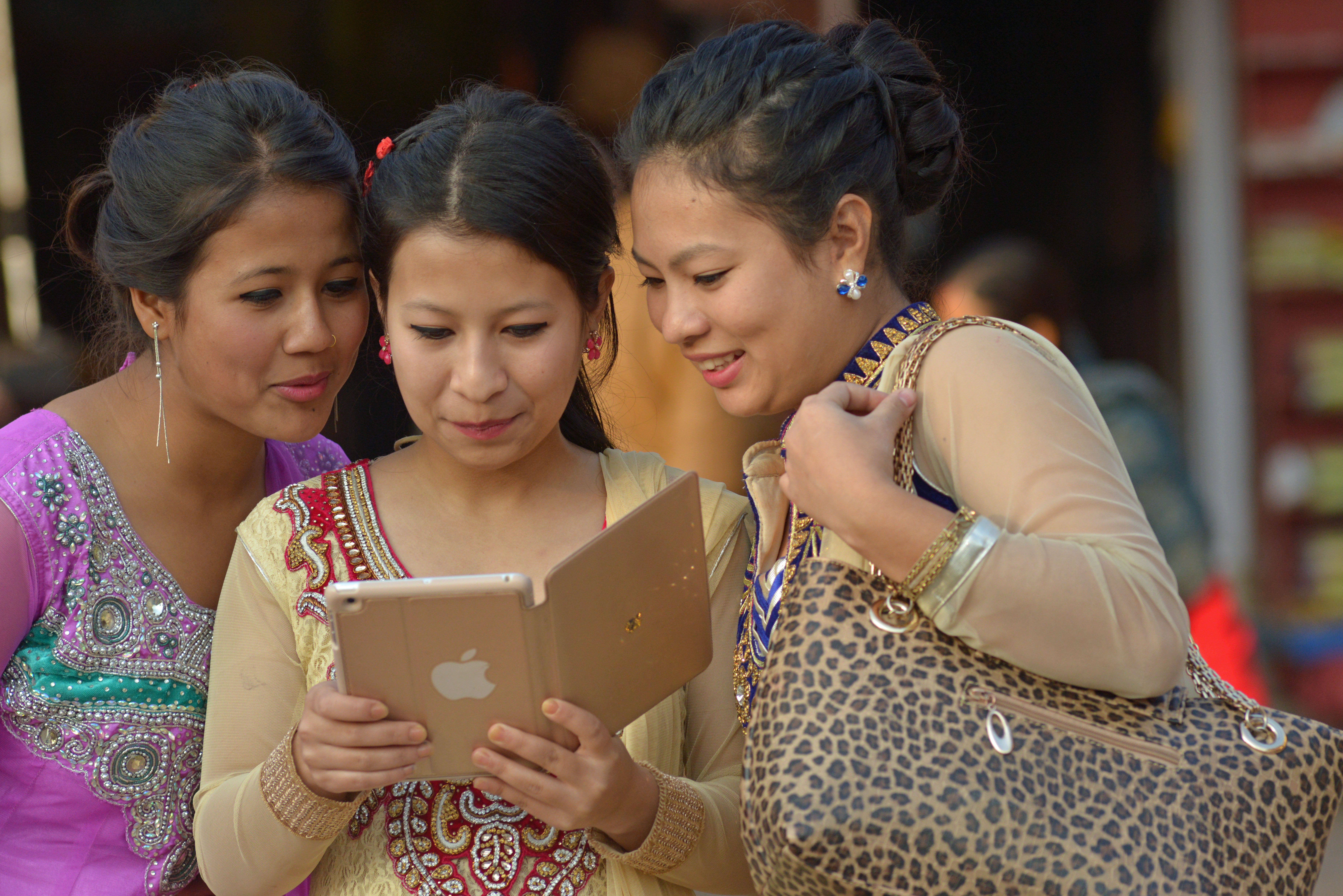 Nepali women with iPad at Boudhanath